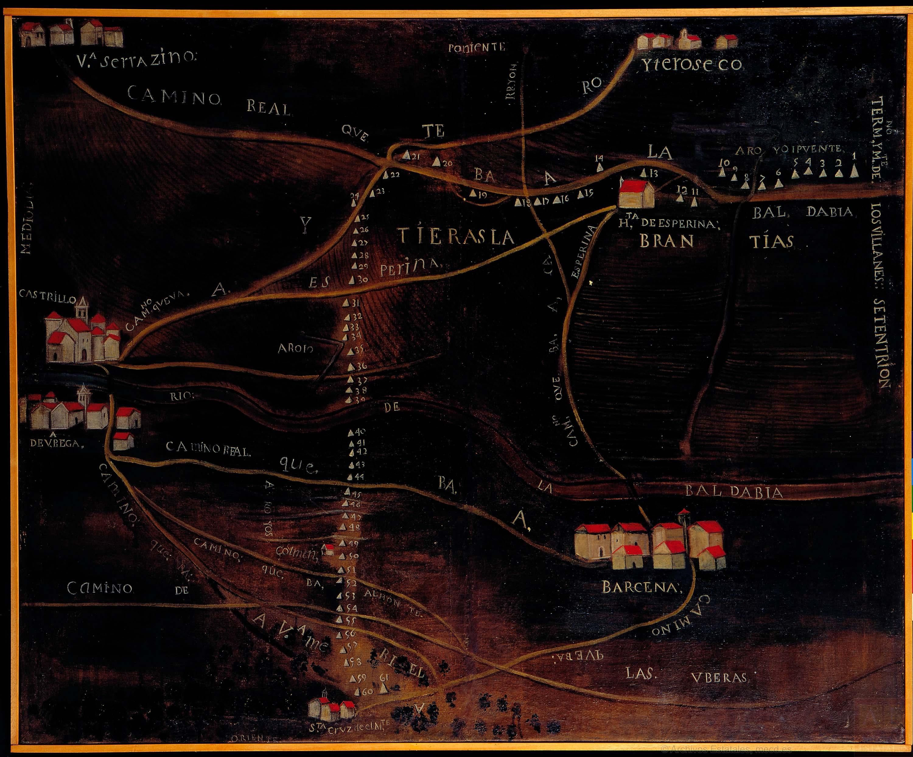 Planos y Dibujos. Óleos del Archivo de la Real Chancillería de Valladolid.